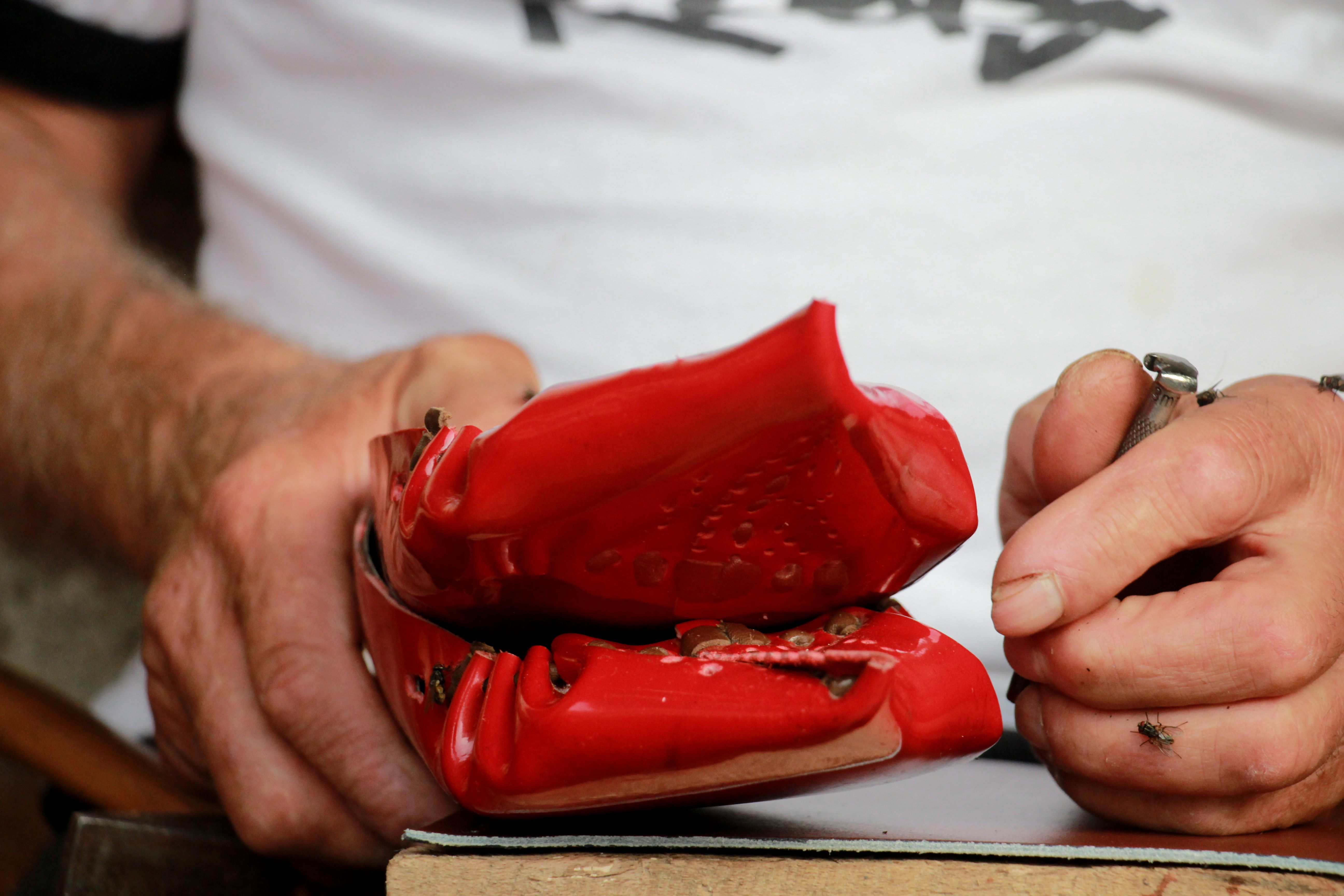 Moccasins of Muramares in the Gheorghe Roman's workshop.Romania Maramureș County, Bârsana.